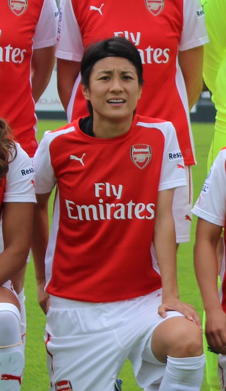 Arsenal Ladies first team photo in the new Puma kit